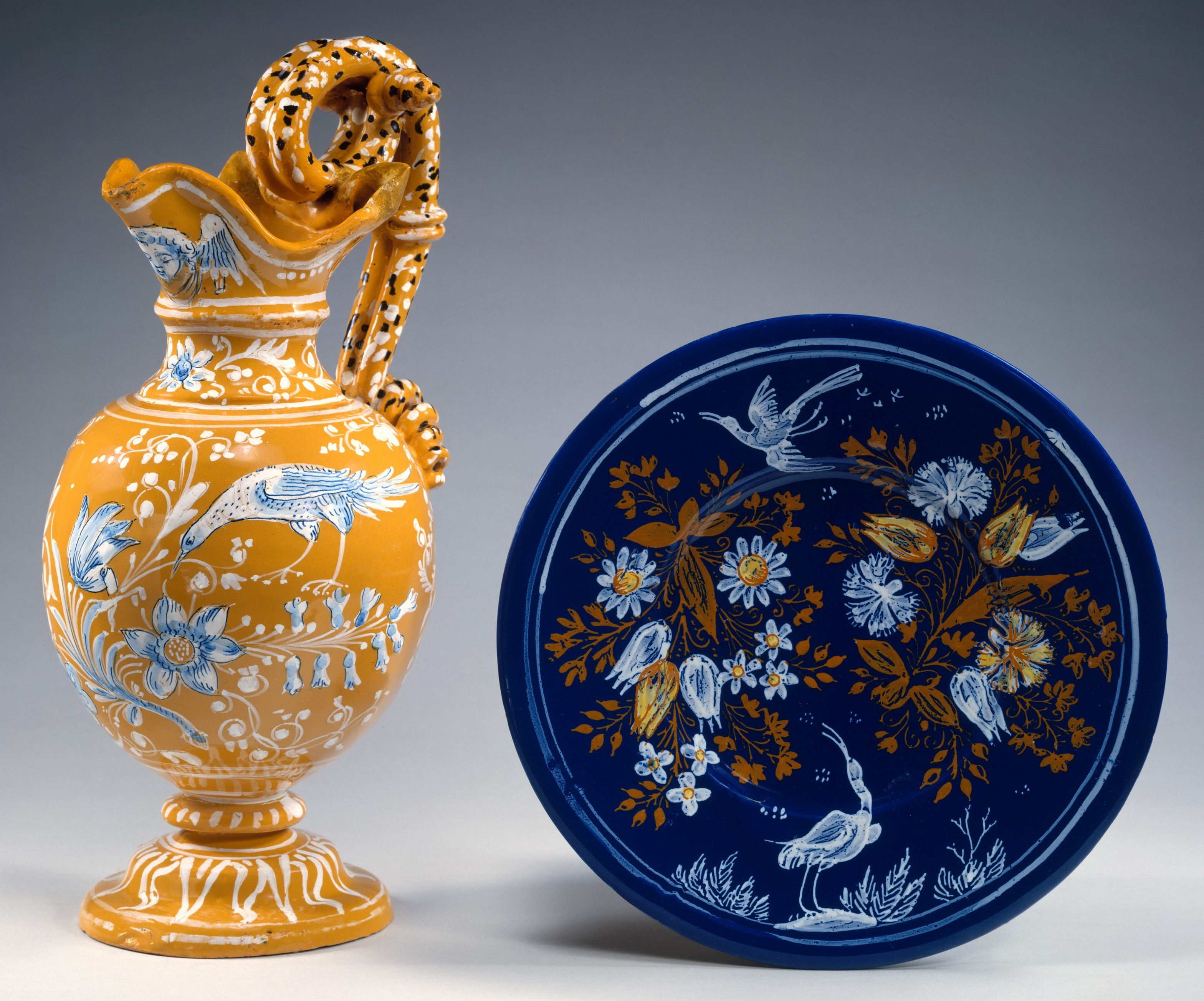 French, Nevers; Ewer; Ceramics-Pottery